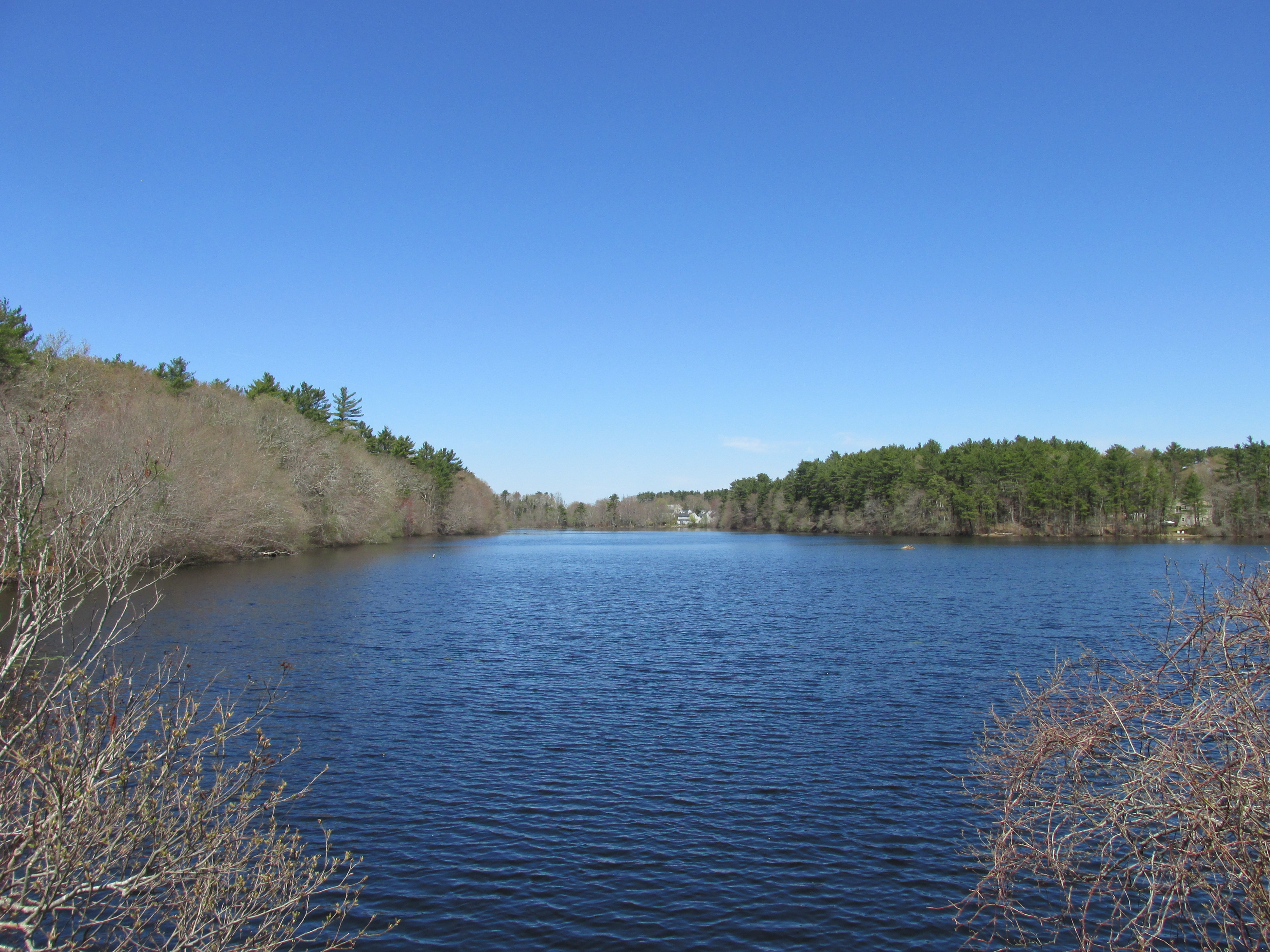 Tremont Mill Pond, West Wareham Massachusetts - 2013